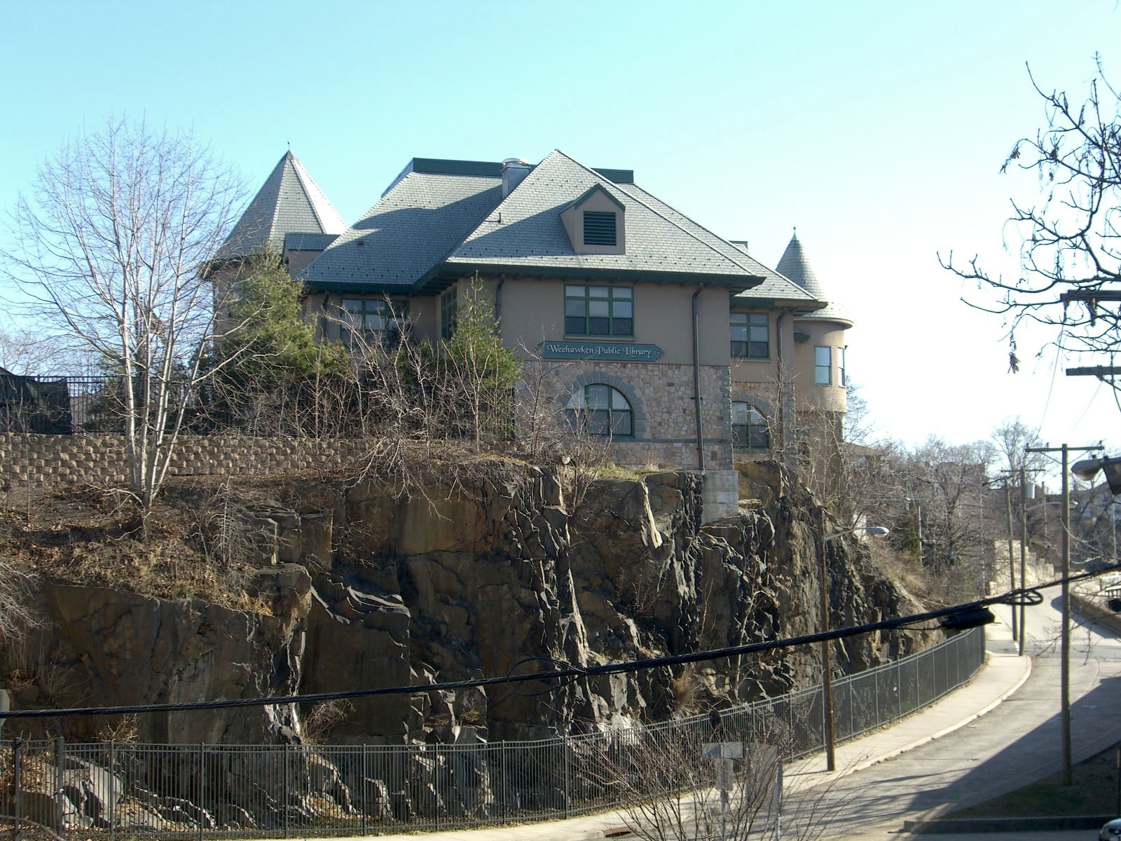 Weehawken Public Library in Weehawken, New Jersey. Photographed by Luigi Novi. This photo may only be used if the photographer is properly credited. (See Licensing information below.)